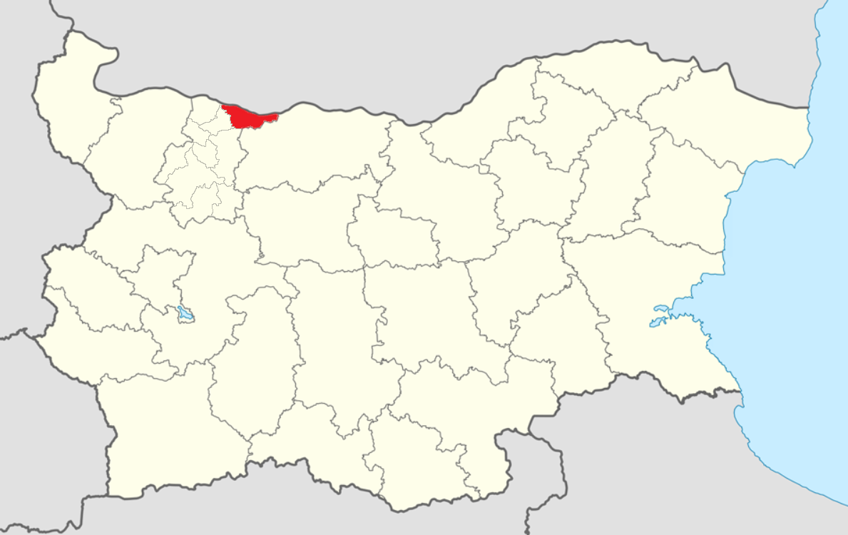 Location map of Oryahovo Municipality within Bulgaria and Vratsa Province.